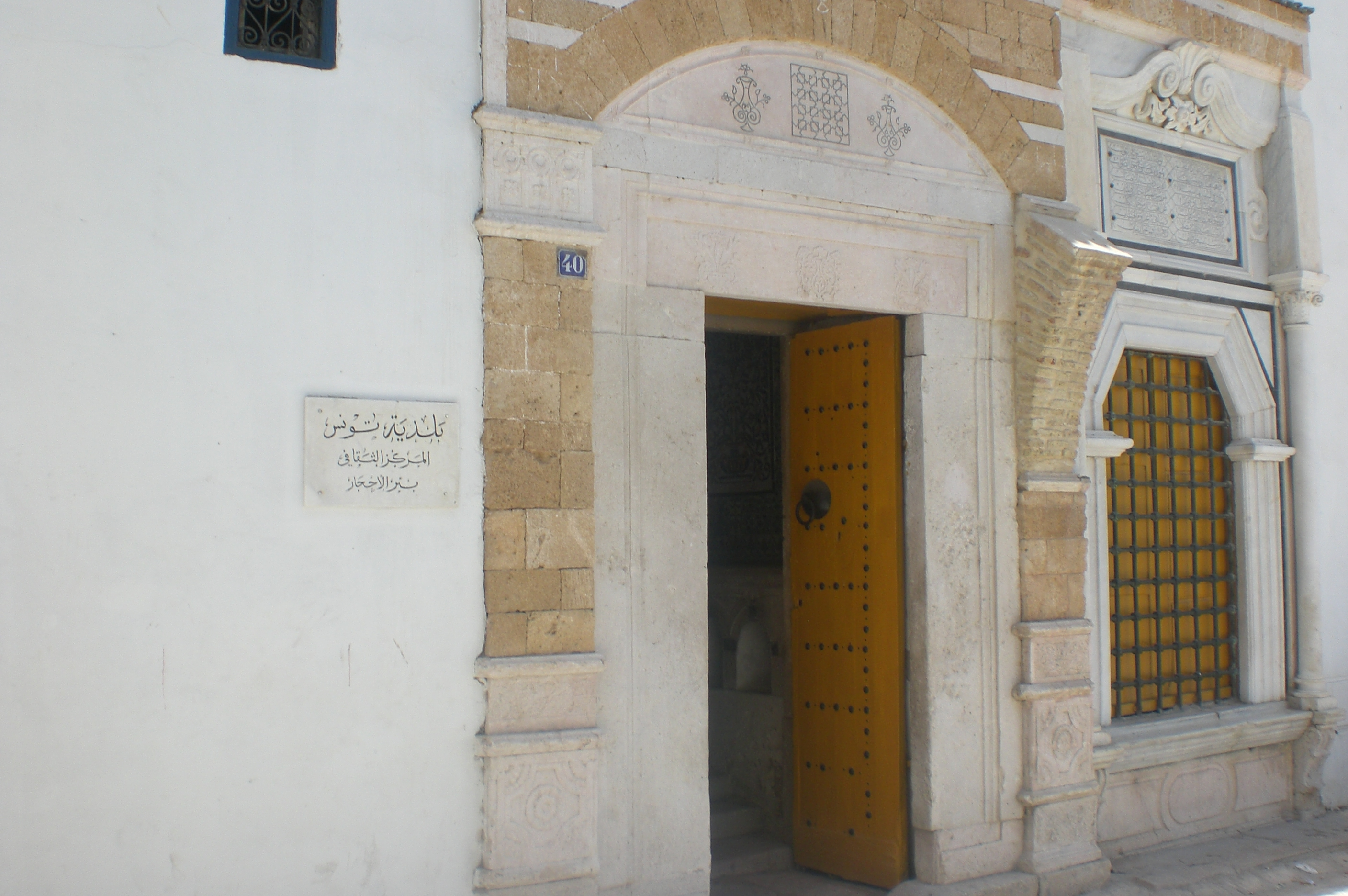 Medersa Bir Lahjar-Tunis